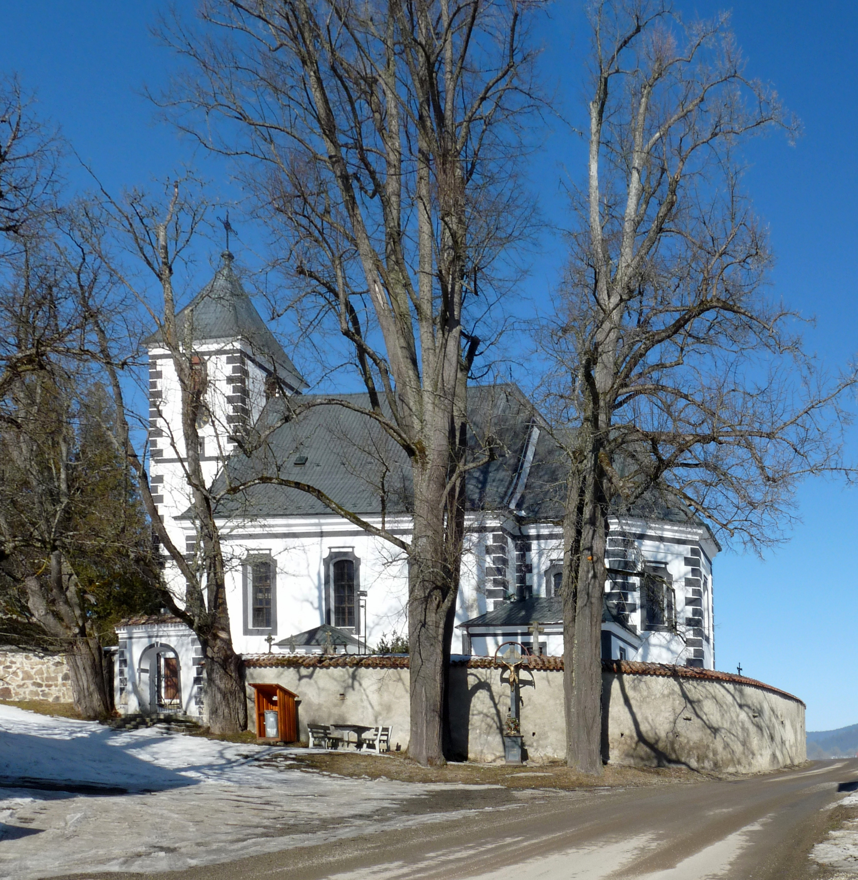 Church of Saint James in the village of Želnava, Prachatice District, Czech Republic.